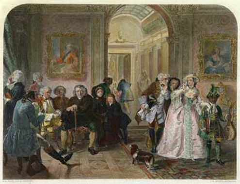 Dr. Johnson in the ante-room of Lord Chesterfield. Coloured engraving. Shrewsbury Museums Service (SHYMS: FA/1995/008) image sy1386. From the original painting [Dr. Johnson in Lord Chesterfield's anteroom] [graphic] / E.M. WARD 1845. 1 painting on board : oil ; image 104 x 137 cm. Summary: Portrait of Dr. Samuel Johnson. Notes: Signed and dated E.M. Ward/1845, lower left. Part of the Hyde Collection, Houghton Library, Harvard University. Call no.: *2003JM-10.